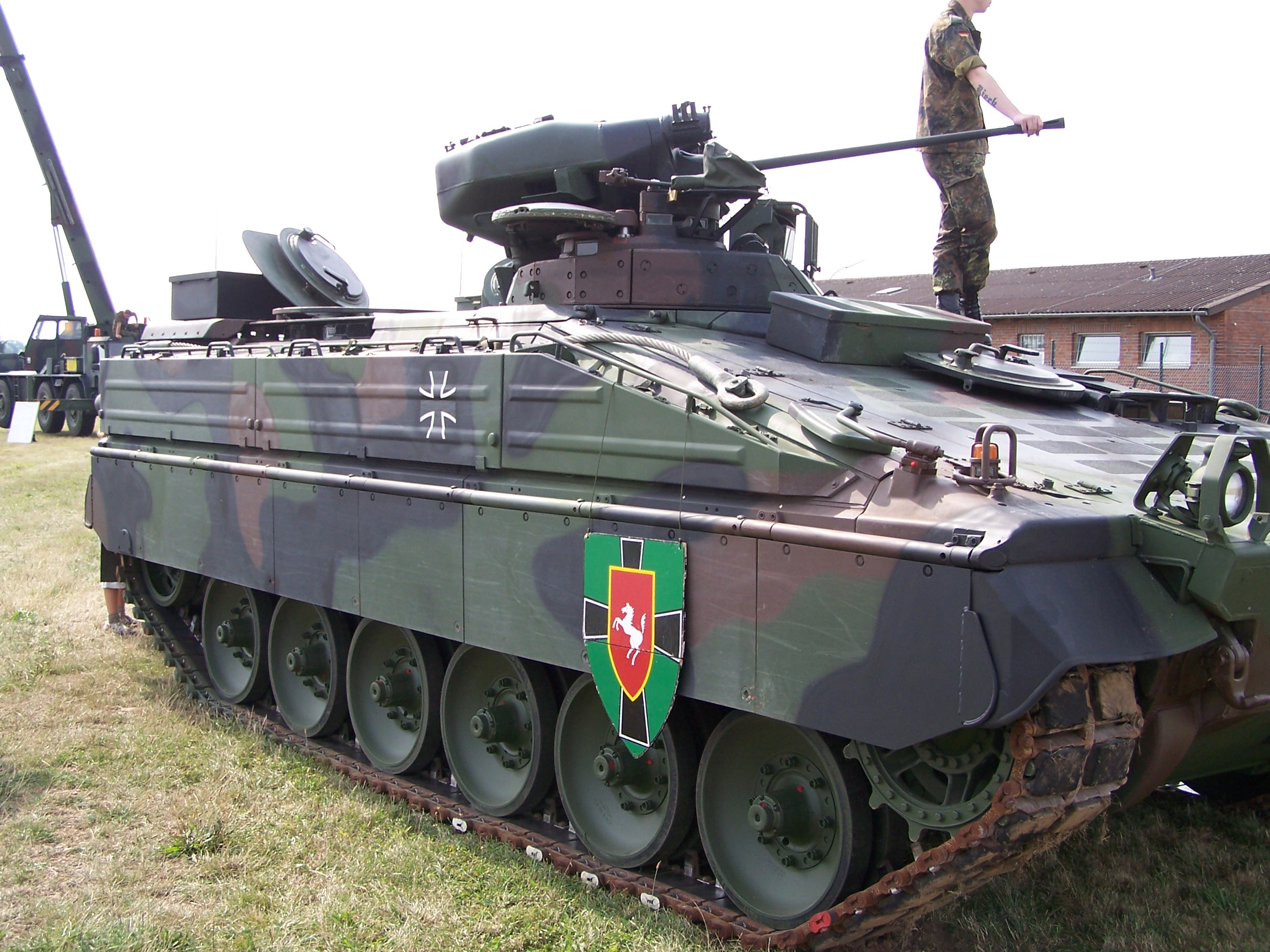 A German Army Marder 1A5